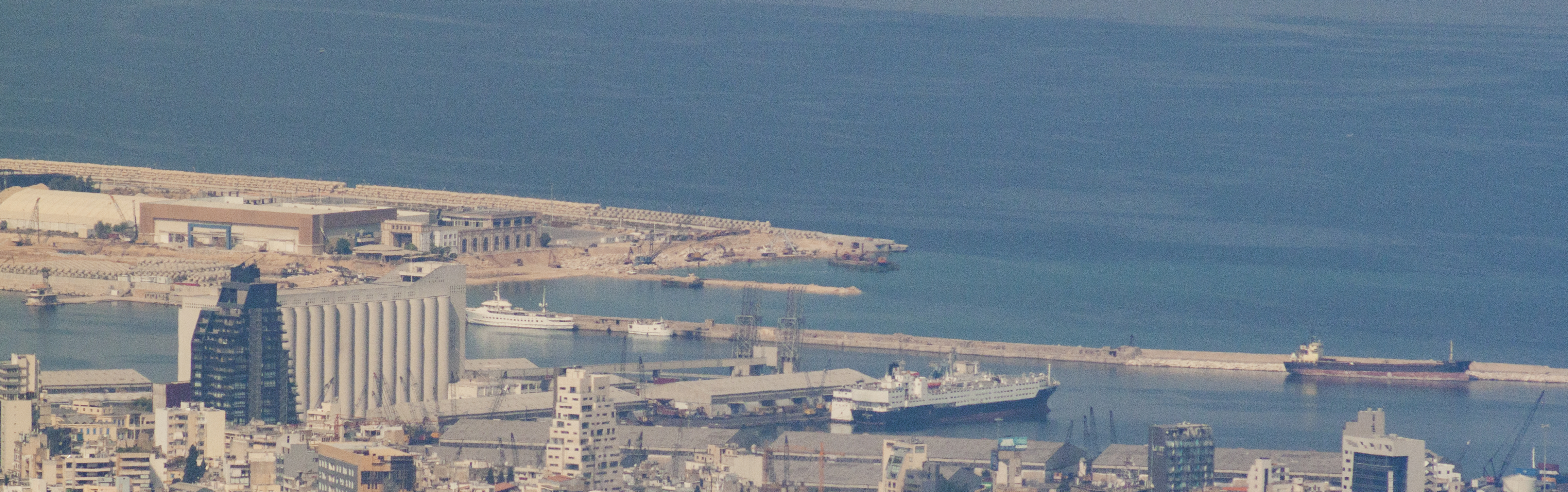 MV Rhosus (Right) port of Beirut, date 8 October 2017.